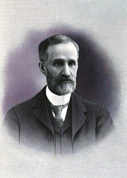 Photo of Robert E. Moore, 7th lieutenant governor of the U.S. State of Nebraska (1895-97)